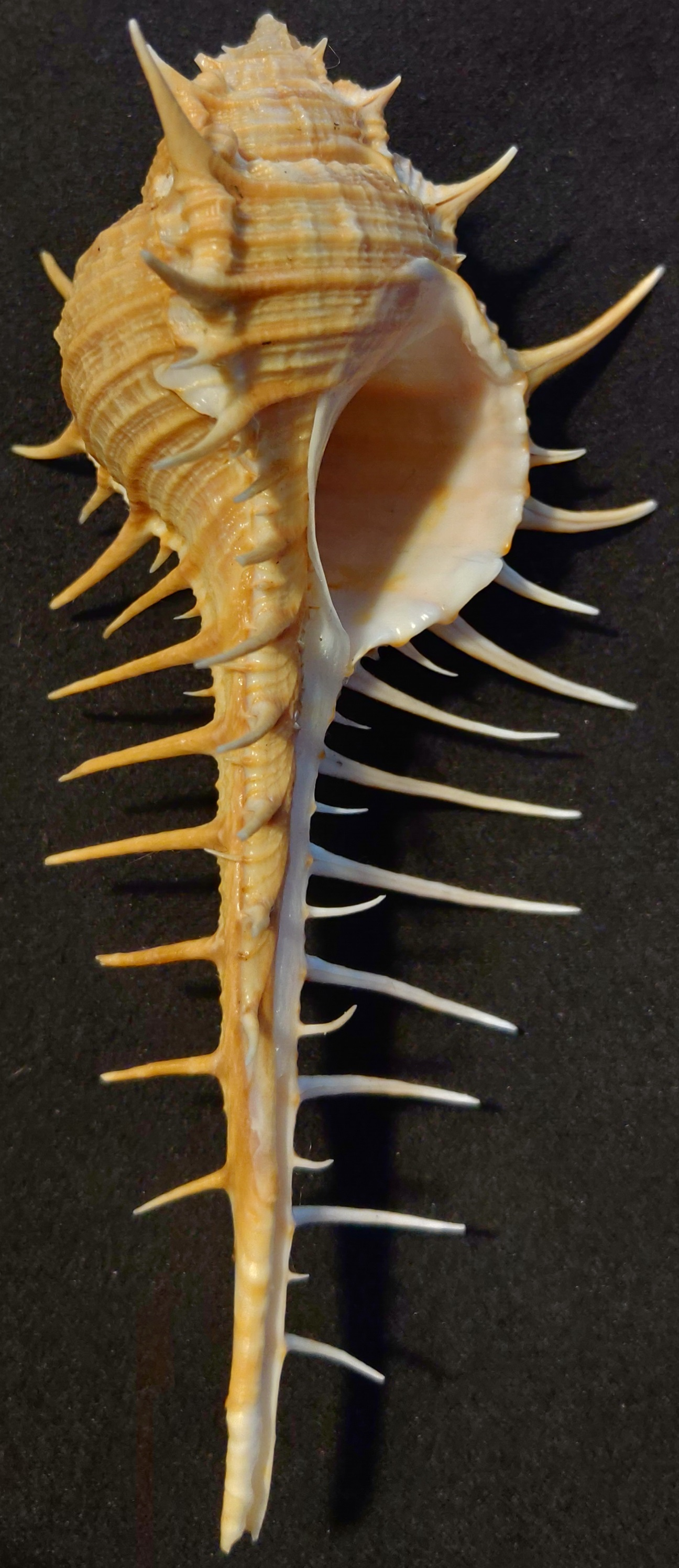 Murex Djarianensis Poppei Front